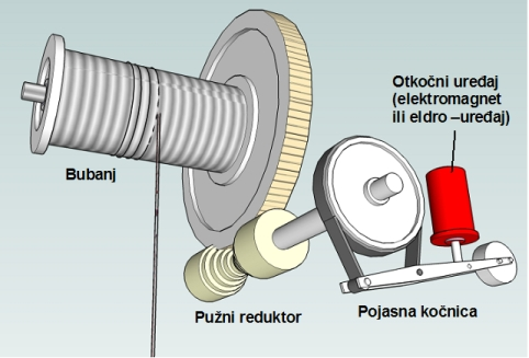 Winch for crane - Main elements